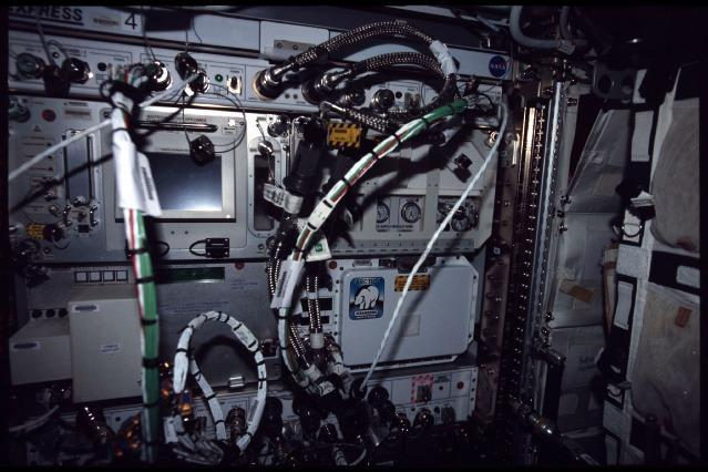 ARCTIC-1 and ARCTIC-2 units installed in EXPRESS rack 4 during Expedition 5. The ARCTIC refrigerator/freezer (ARCTIC) provided a thermally-controlled environment for storing biological samples prior to their return to Earth in the early stages of the International Space Station (ISS). The ARCTIC freezers supported several of these experiments on ISS during Expeditions 4 and 5.